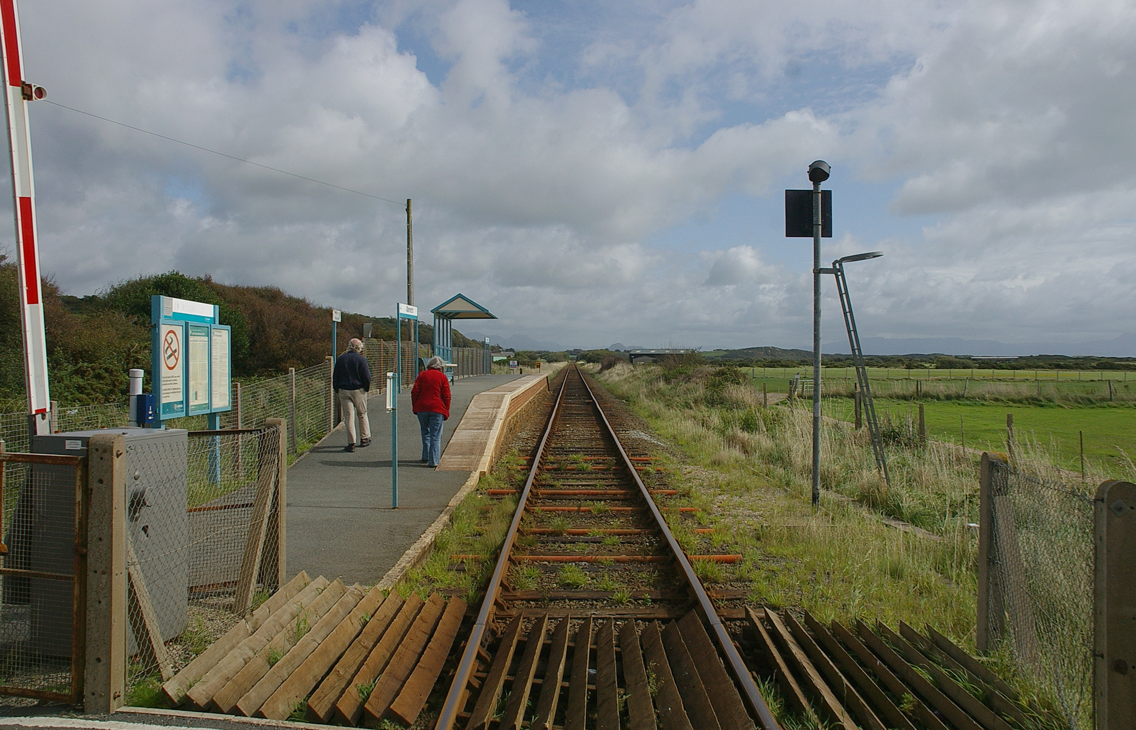 Looking east from Abererch railway station on the Cambrian Coast Line.